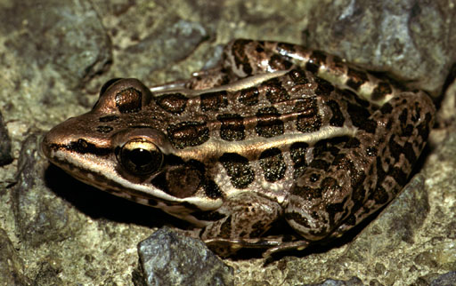 Pickerel Frog, Rana palustris. Location: Mason Farm Biological Reserve, Orange County, North Carolina, United States